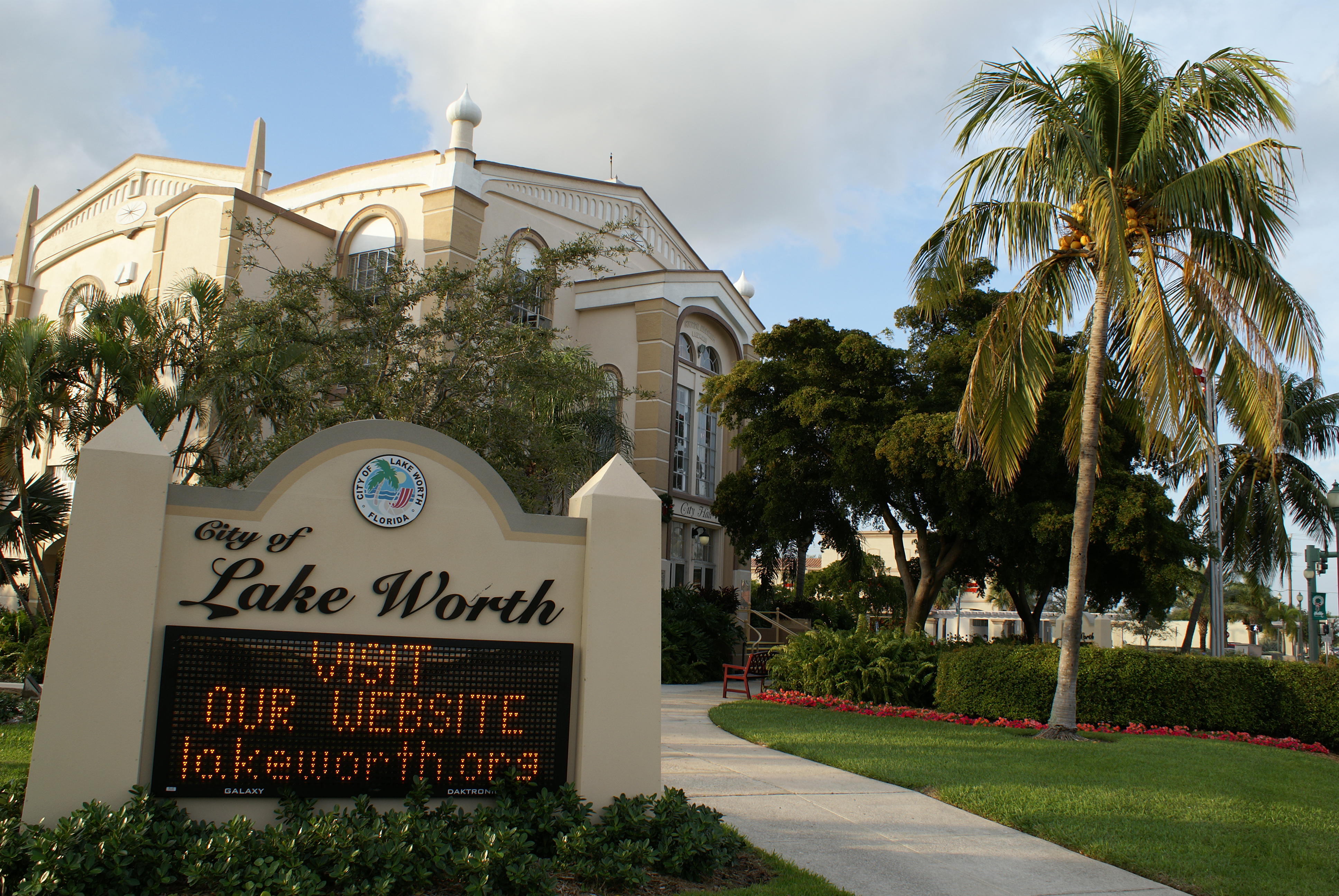 City Hall, Lake Worth, Florida, USA. This picture was taken by me and I release all rights.